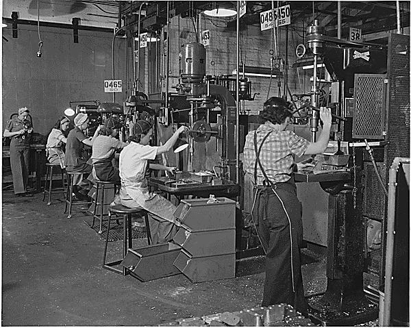 Women man America's machines in a west coast airplane factory, where the swing shift of drill press operators is composed almost entirely of women.